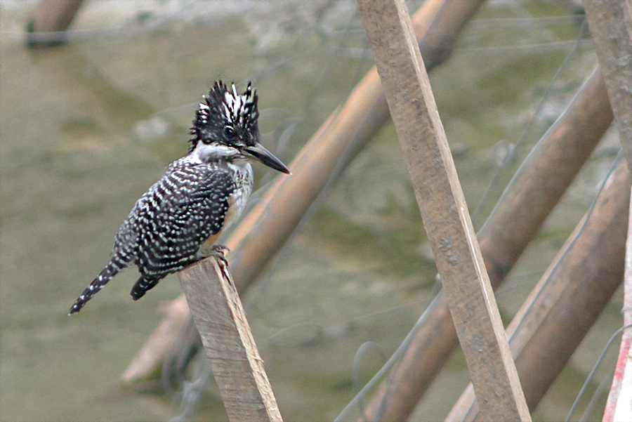 The species Crested Kingfisher has been photographed from Darap village in West Sikkim in the state of Sikkim, India during the bird photography tour.